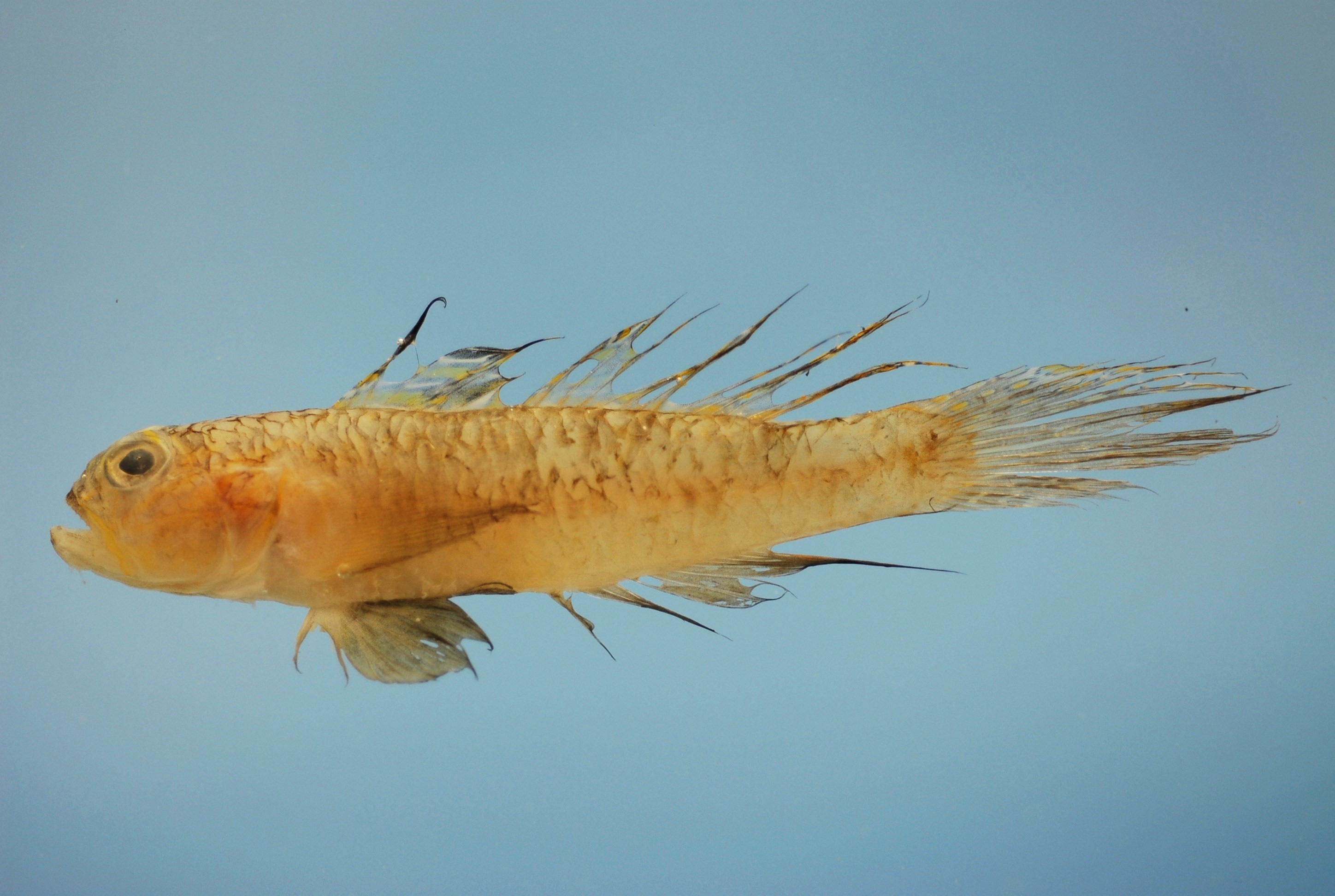 Ctenogobius boleosoma from the gulf of Mexico